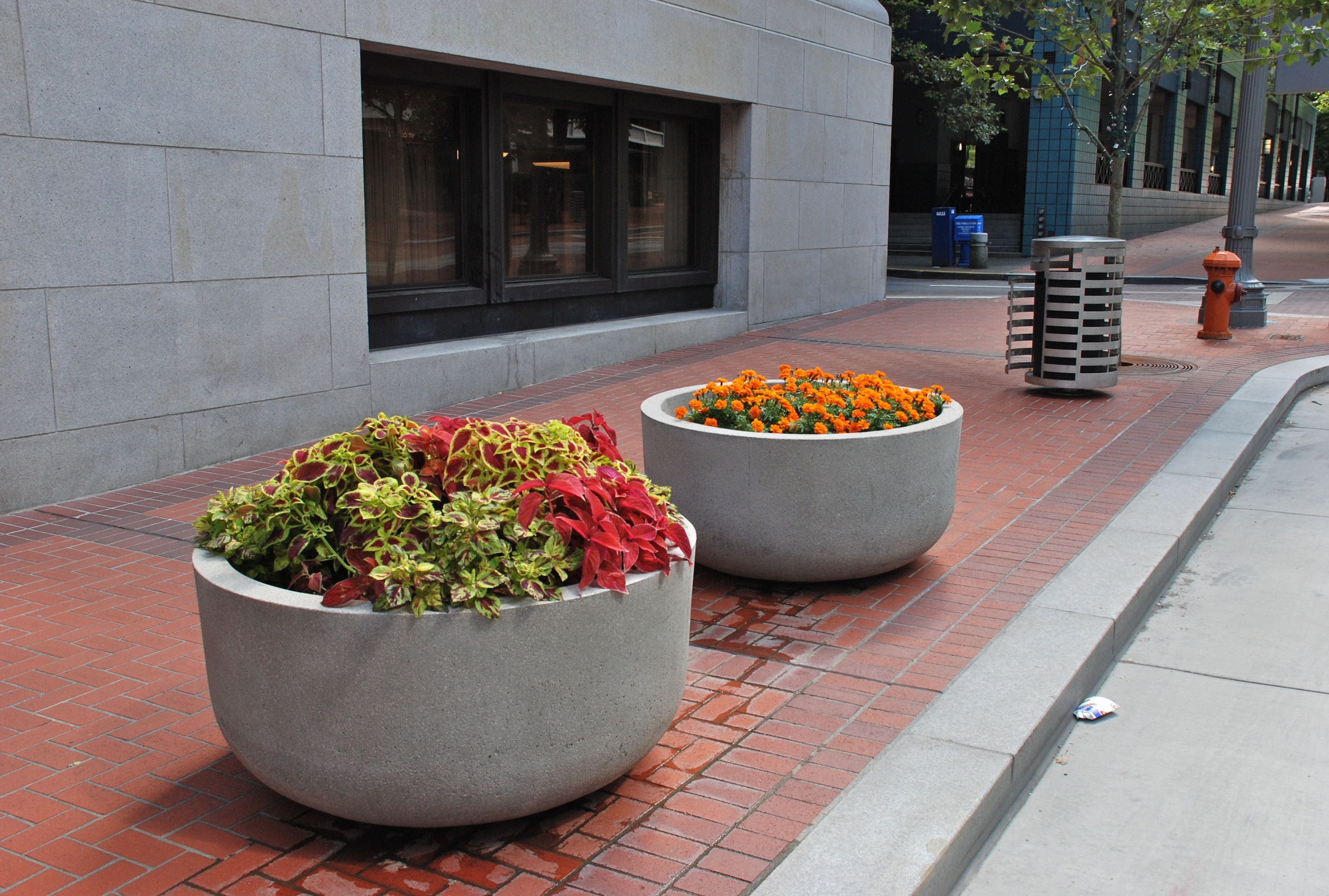 A pair of flower planters on the Portland Mall, the transit mall in Portland, Oregon, on 5th Avenue just north of Main Street.